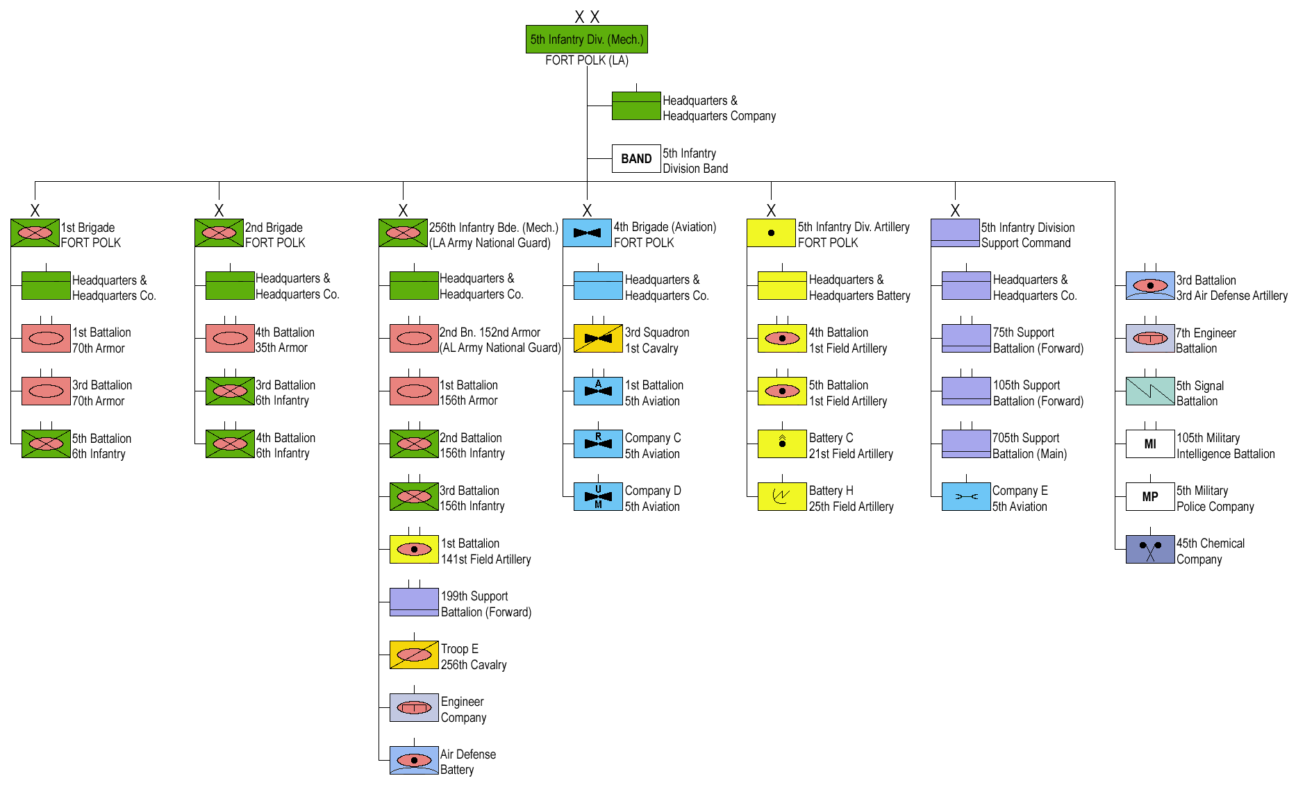 US Army 5th Infantry Division Structure in 1989